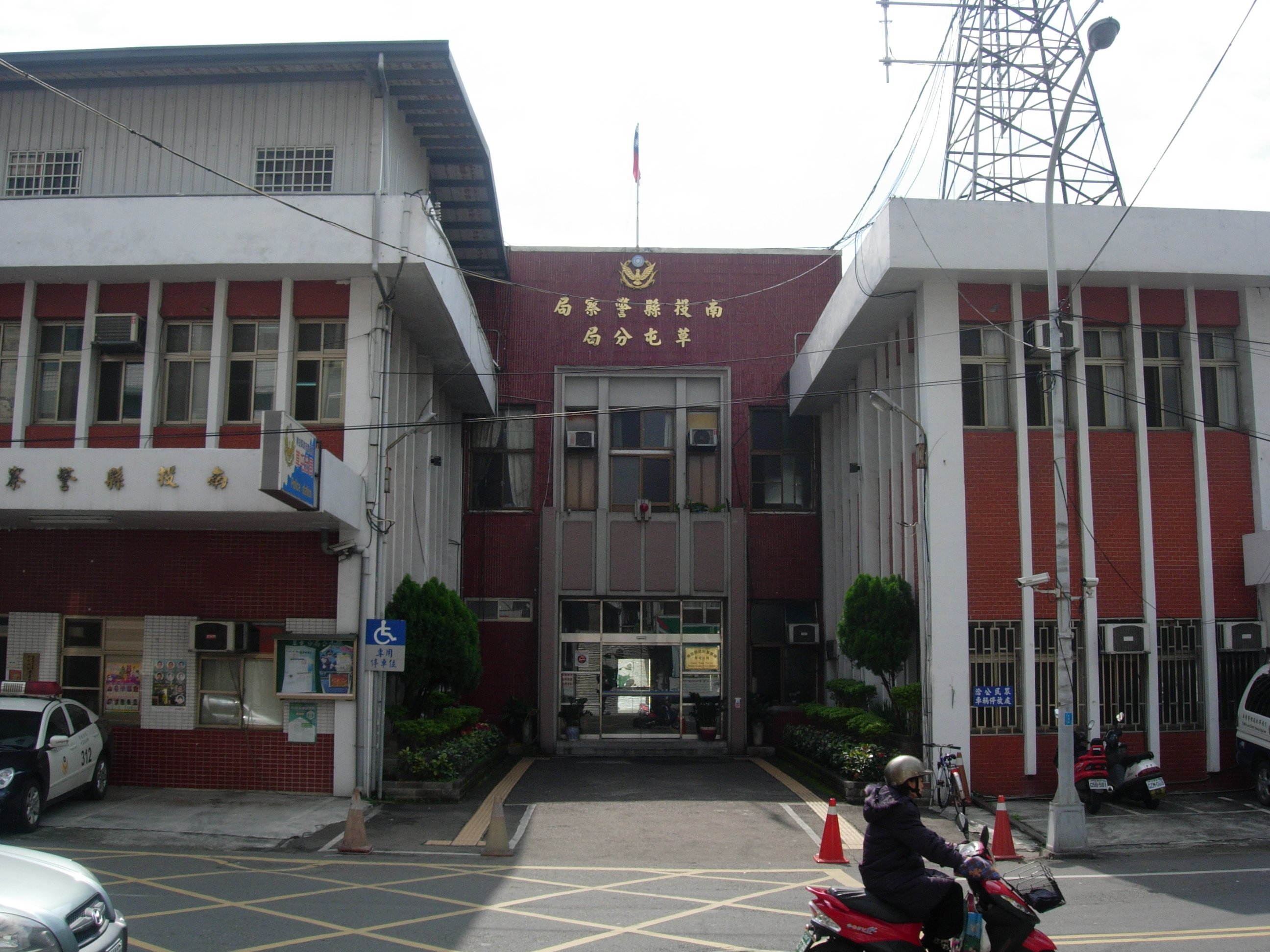 Tsaotun Precinct, Nantou County Police Bureau.